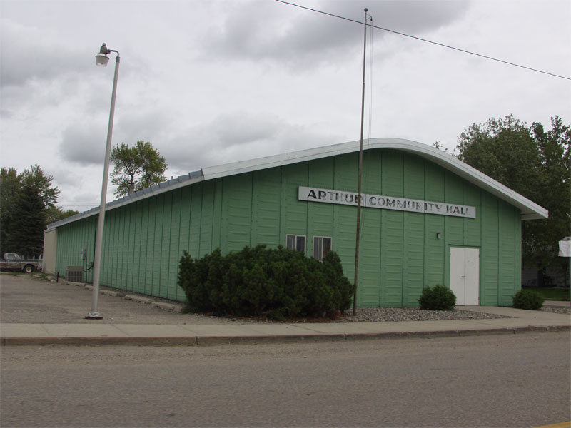 Arthur, North Dakota. From .Arthur, North Dakota